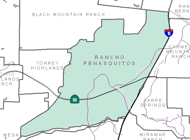 Map of Rancho Penasquitos in San Diego